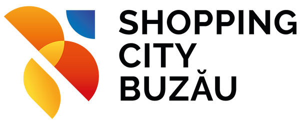 Logo Shopping city buzau